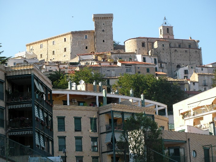 The historical center of Casoli